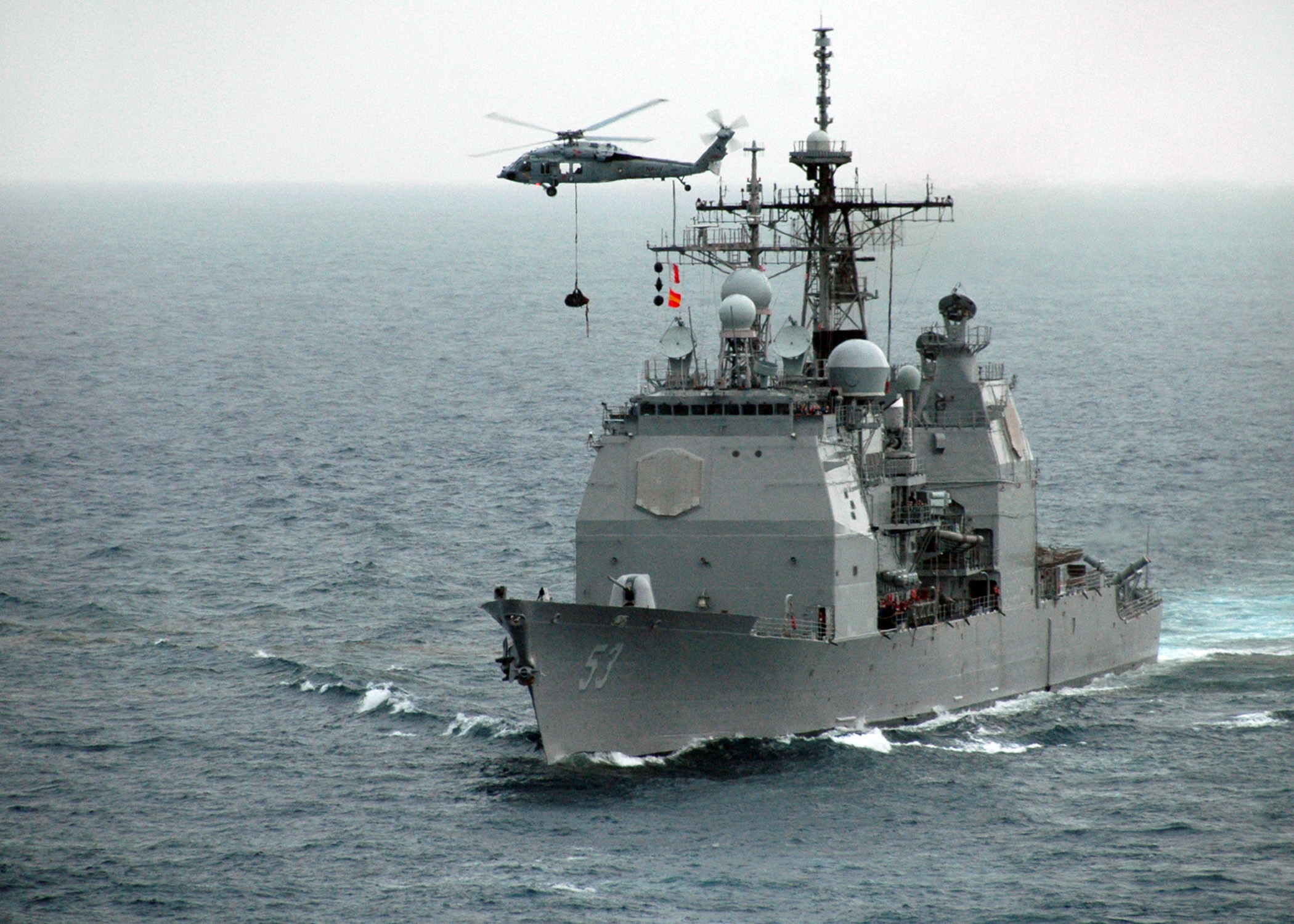 An MH-60S Seahawk assigned to Helicopter Sea Combat Squadron (HSC) 23 delivers supplies to the Ticonderoga-class guided-missile cruiser USS Mobile Bay (CG 53) during a vertical replenishment with the Nimitz-class aircraft carrier USS Abraham Lincoln (CVN 72) and the Military Sealift Command fast combat support ship USNS Rainer (T-AOE 7). Lincoln and Carrier Strike Group (CSG) 9 are on a seven-month deployment to the U.S. 5th fleet area of responsibility.